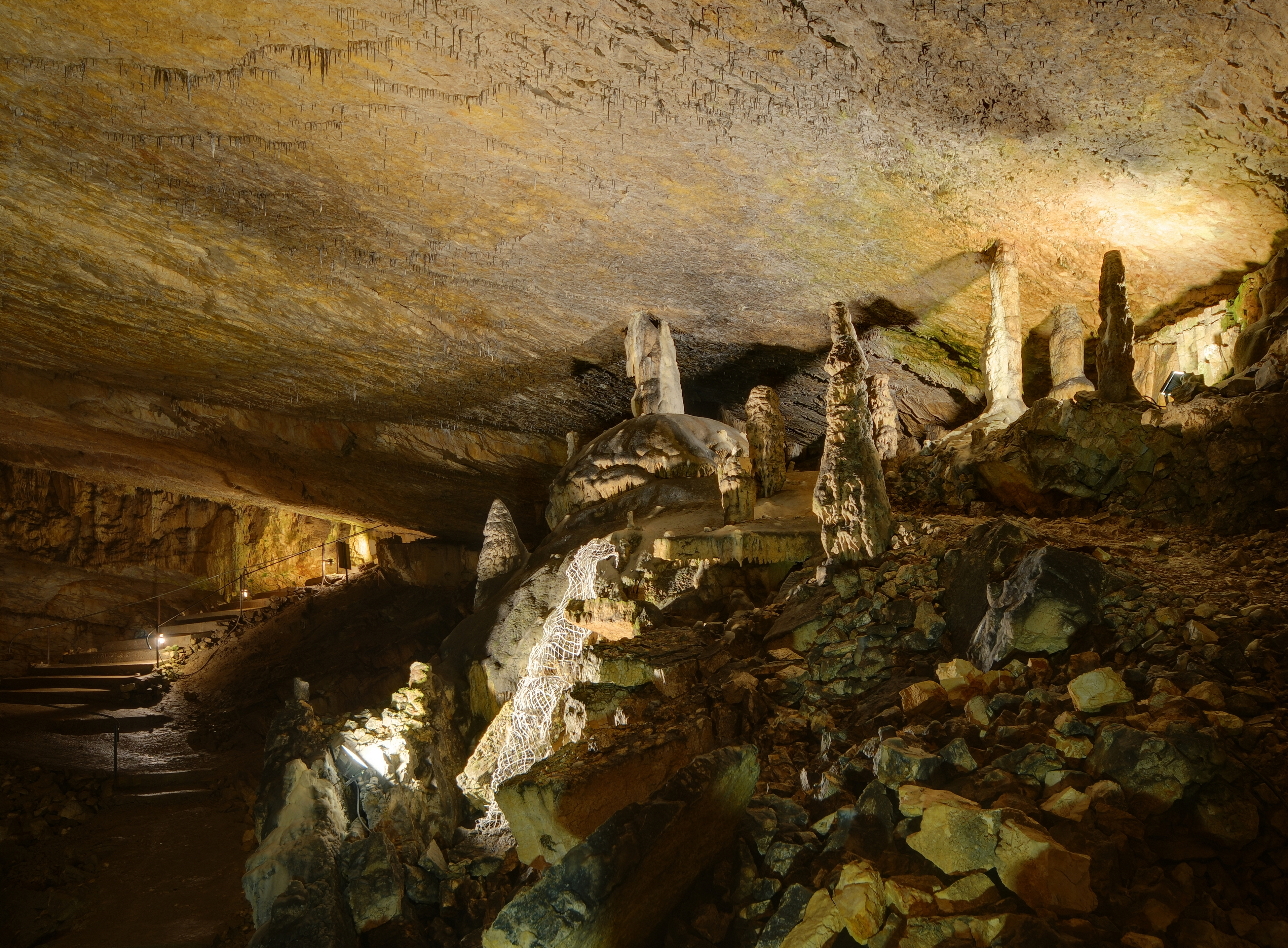 This photograph was taken with a Nikon D300 Grottes de Réclère (HDR).